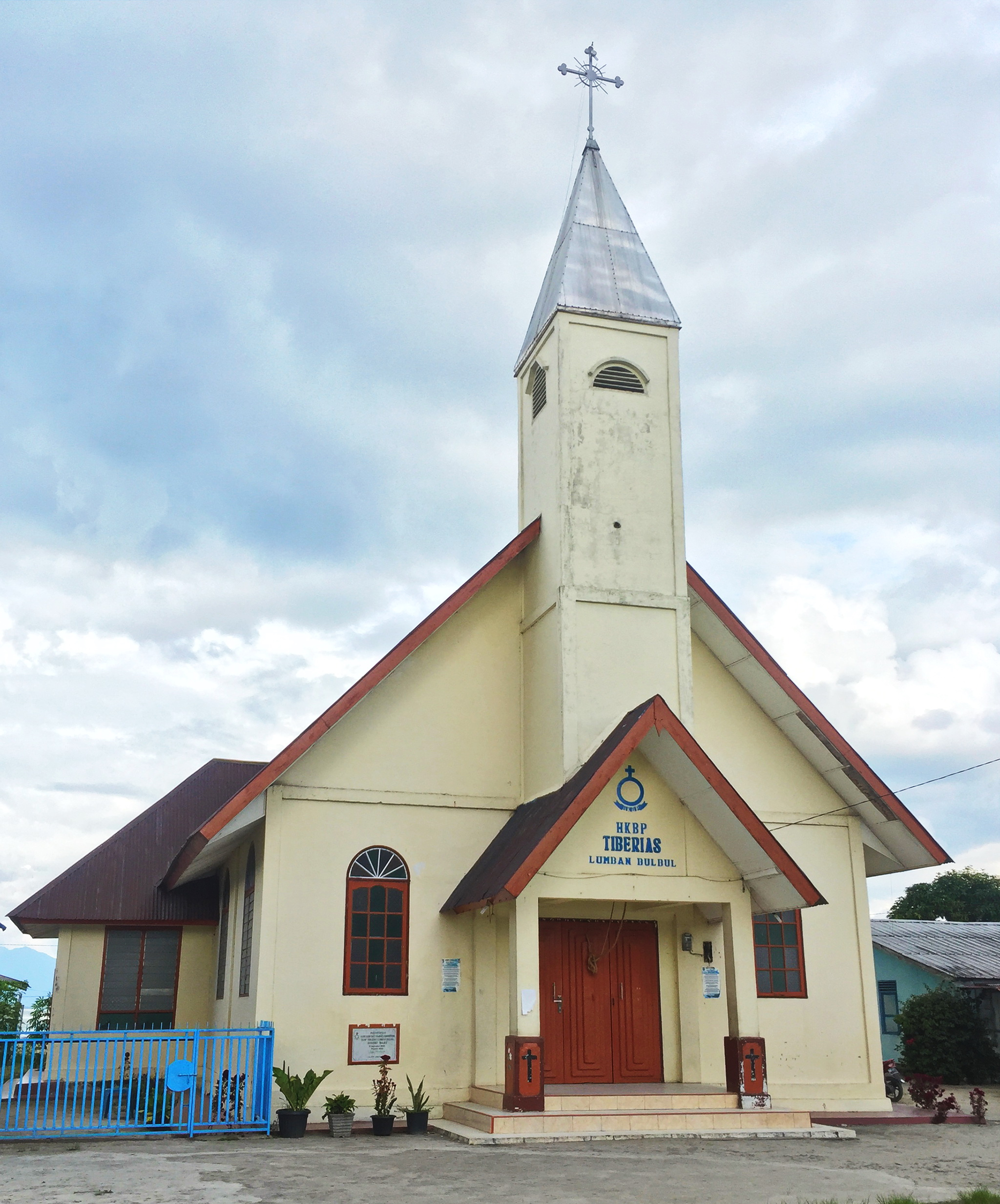 HKBP Tiberias Lumban Bulbul, Church in Lumban Bulbul, Balige, Toba Samosir, North Sumatra